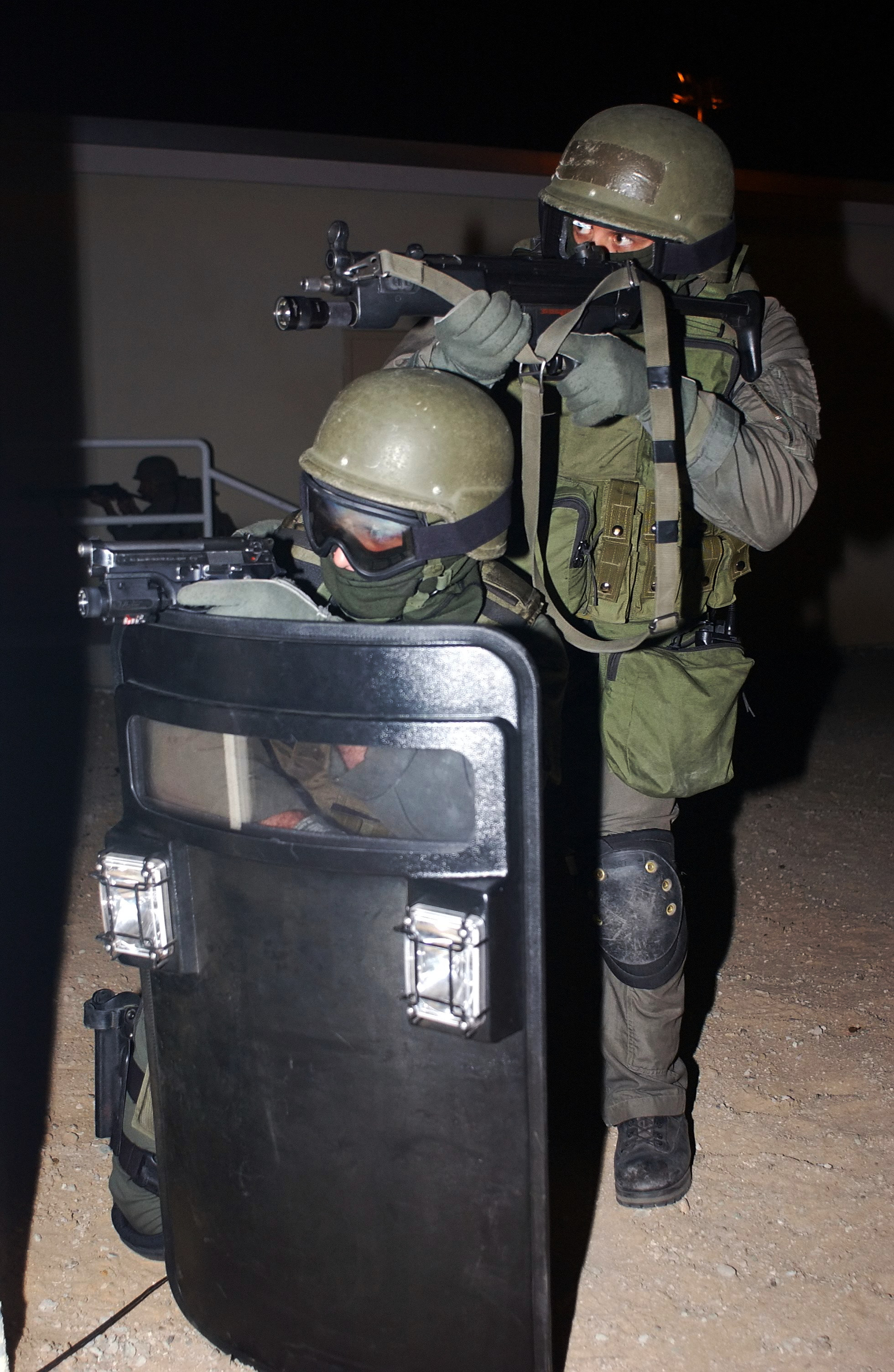 US Navy (USN) Hospital Corpsman Third Class (HM3) Thomas J. Cupo (left), crouches behind the shield with a 9mm handgun, while US Marine Corps (USMC) Corporal (CPL) Stephen L. Clogston, provide cover with a Heckler and Koch 9mm MP5-N sub-machine gun. Both are members of the Marine Special Reaction Team (SRT), and are participating in a simulated bank robbery at the Marine Air Ground Combat Center in Twentynine Palms, California (CA). The annual training event, conducted by the Provost Marshals Office, is designed to train Military Police and Criminal Investigators proper procedures when dealing with a hostage situation.